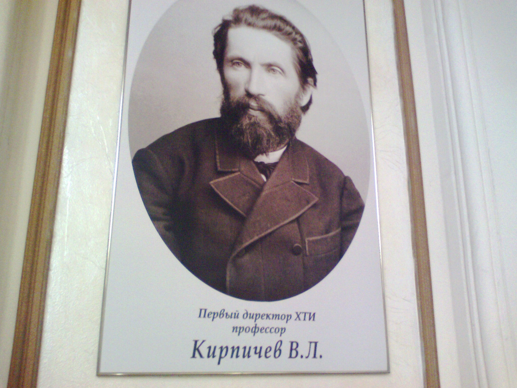 The picture in the main administration building in honor of the first director of the Kharkov Technical Institute (the former name of institution).